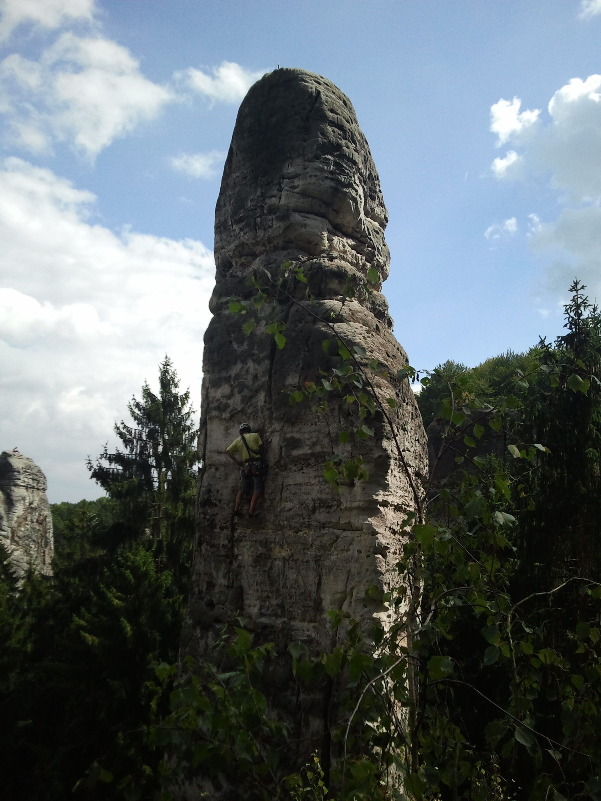 Horolezci na Taktovce (Stara cesta)